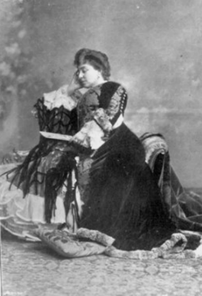 Romanian theater celebrity Aristizza Romanescu in Septima. Câinii, by Haralamb Lecca.